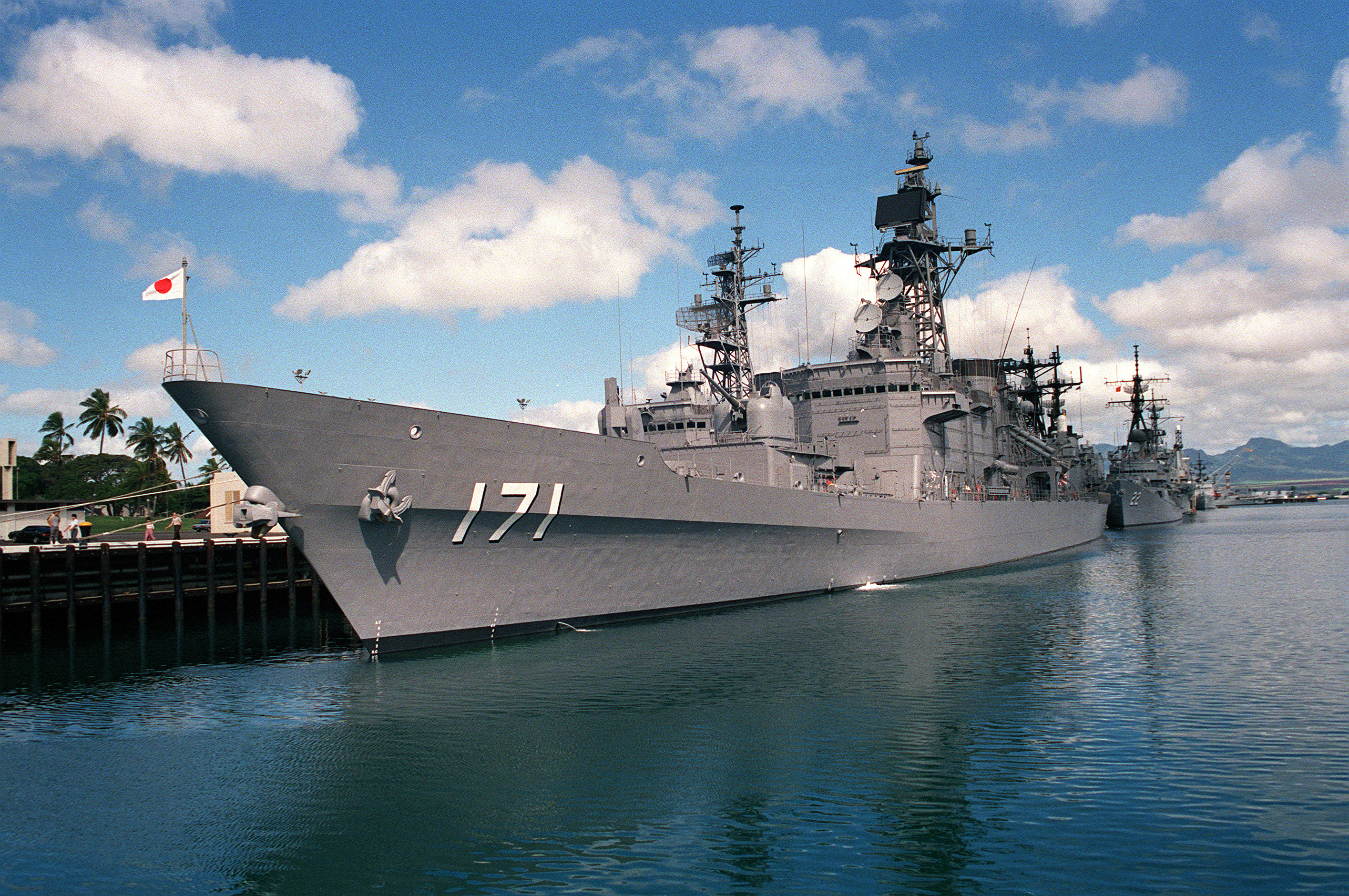 JDS Hatakaze, a Japanese Hatakaze class destroyer docked in Pearl Harbour.